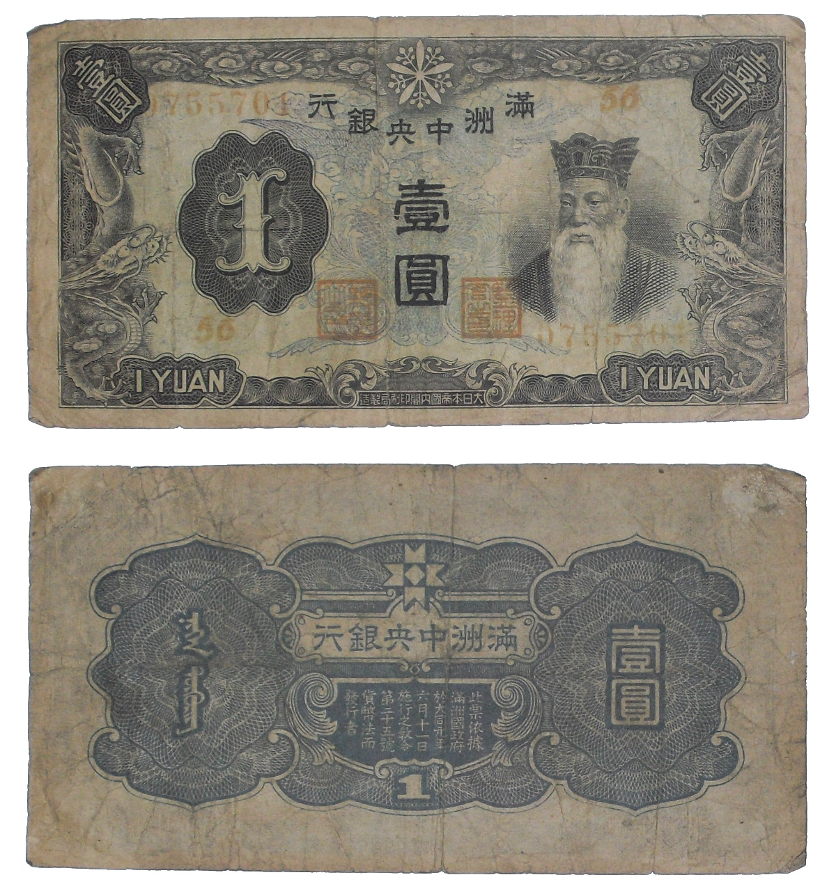 Manchuria 1Yuan 1944